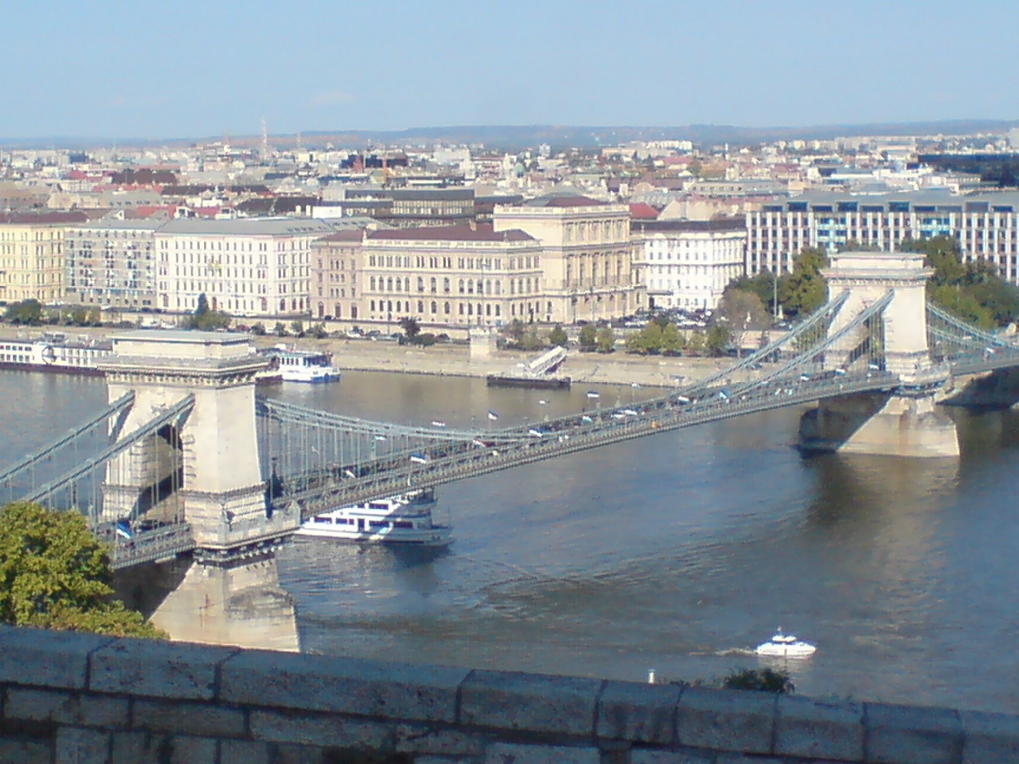 Chain Bridge, Budapest, Hungary